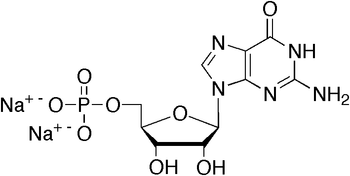 chemical structure of disodium guanylate